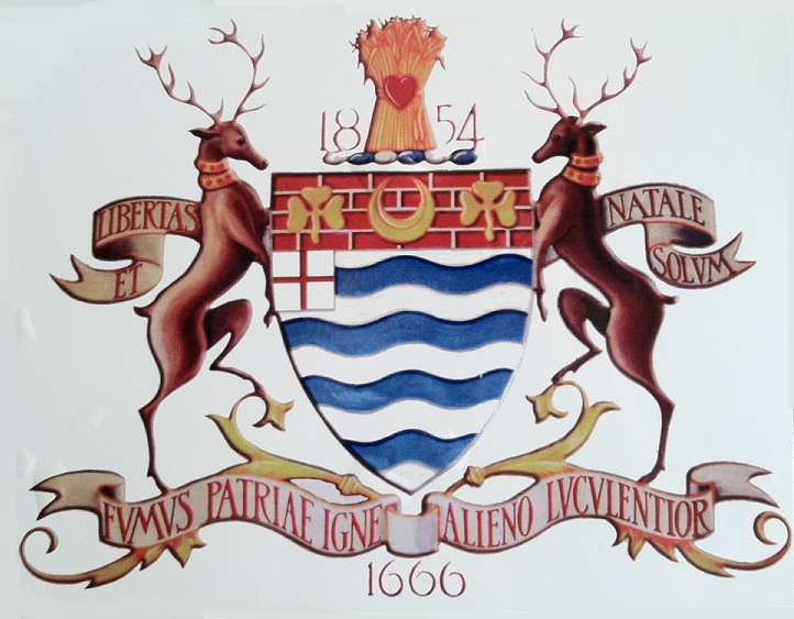 Official Seal of the Village of Haverstraw